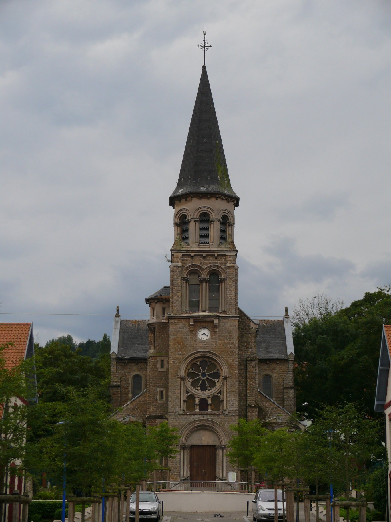 Saint-Therese's church of Saint-Étienne-au-Mont (Nord, France).